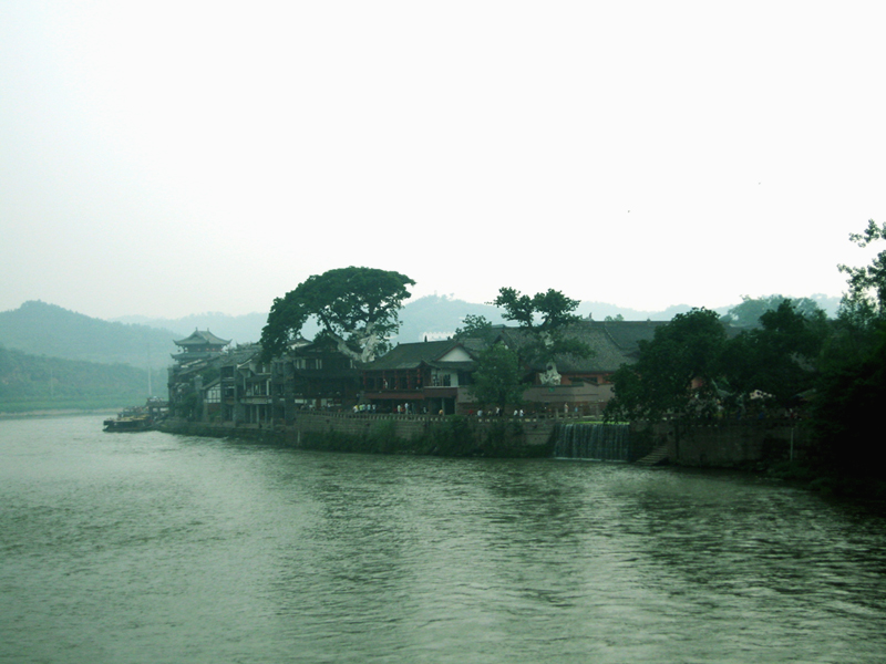 The histrical town of Huanglongxi near Chengdu, China